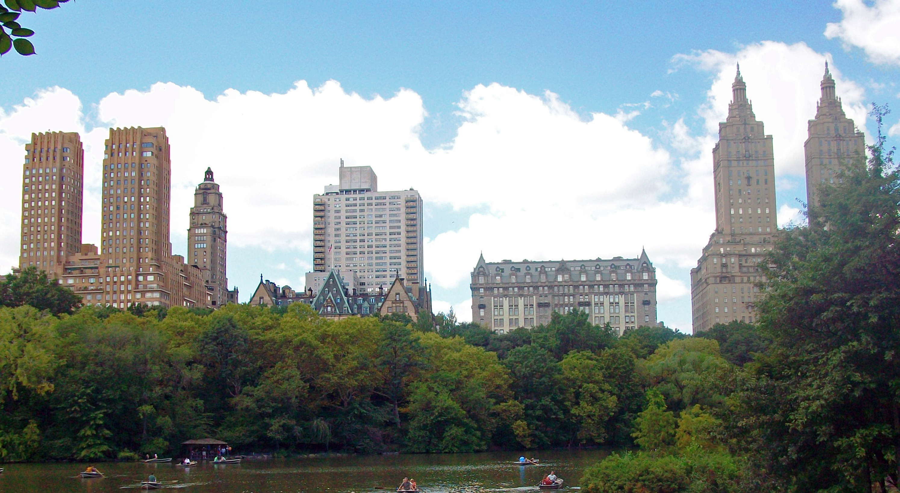 The Majestic, Dakota, Langham and San Remo, all contributing properties to the Central Park West Historic District, seen from Bow Bridge over the Lake in Central Park